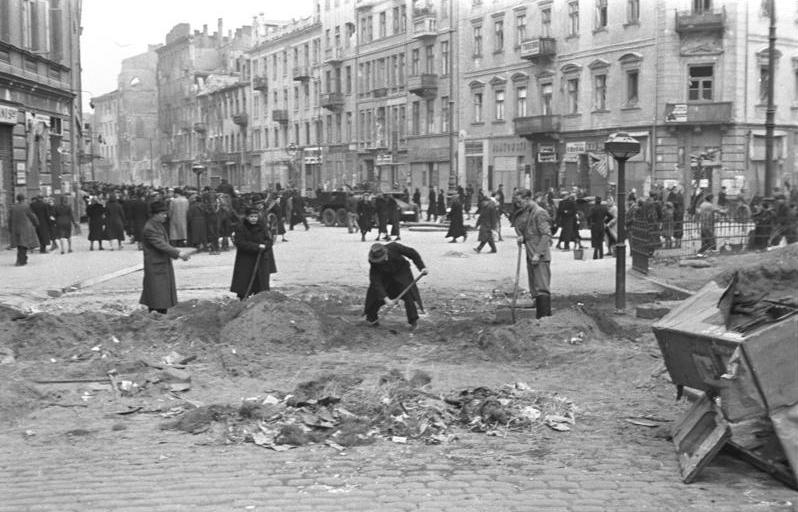 Warsaw during World War II